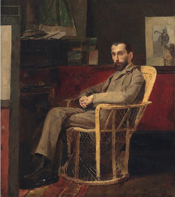 Portrait of Louis Abrahams by Tom Roberts, 1886. oil on canvas, 40.6 x 35.5 cm. National Gallery of Australia